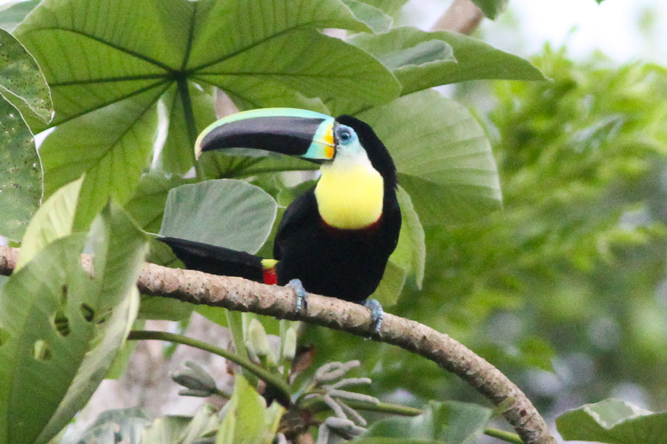 Ramphastos vitellinus citreolaemus (Citron-throated Toucan)